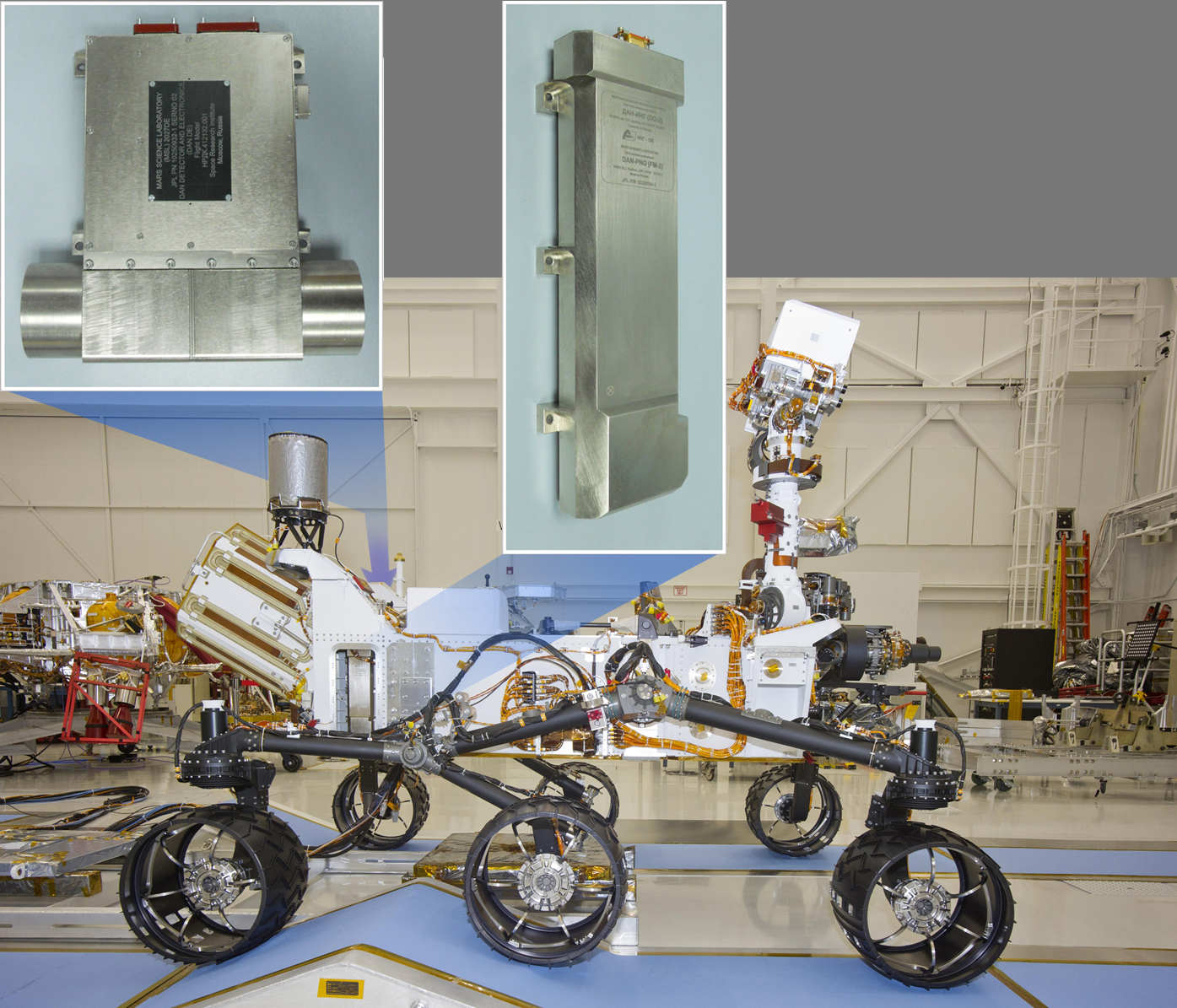 Location of DAN on Curiosity. This image of NASA's Curiosity rover shows the location of the two components of the Dynamic Albedo of Neutrons instrument. The neutron generator is mounted on the right hip (visible in this view), and the detectors are on the opposite hip.